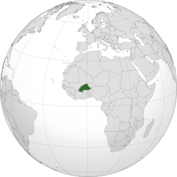 Un planeta ps y se marca donde sta Burkina Faso la dvd :v